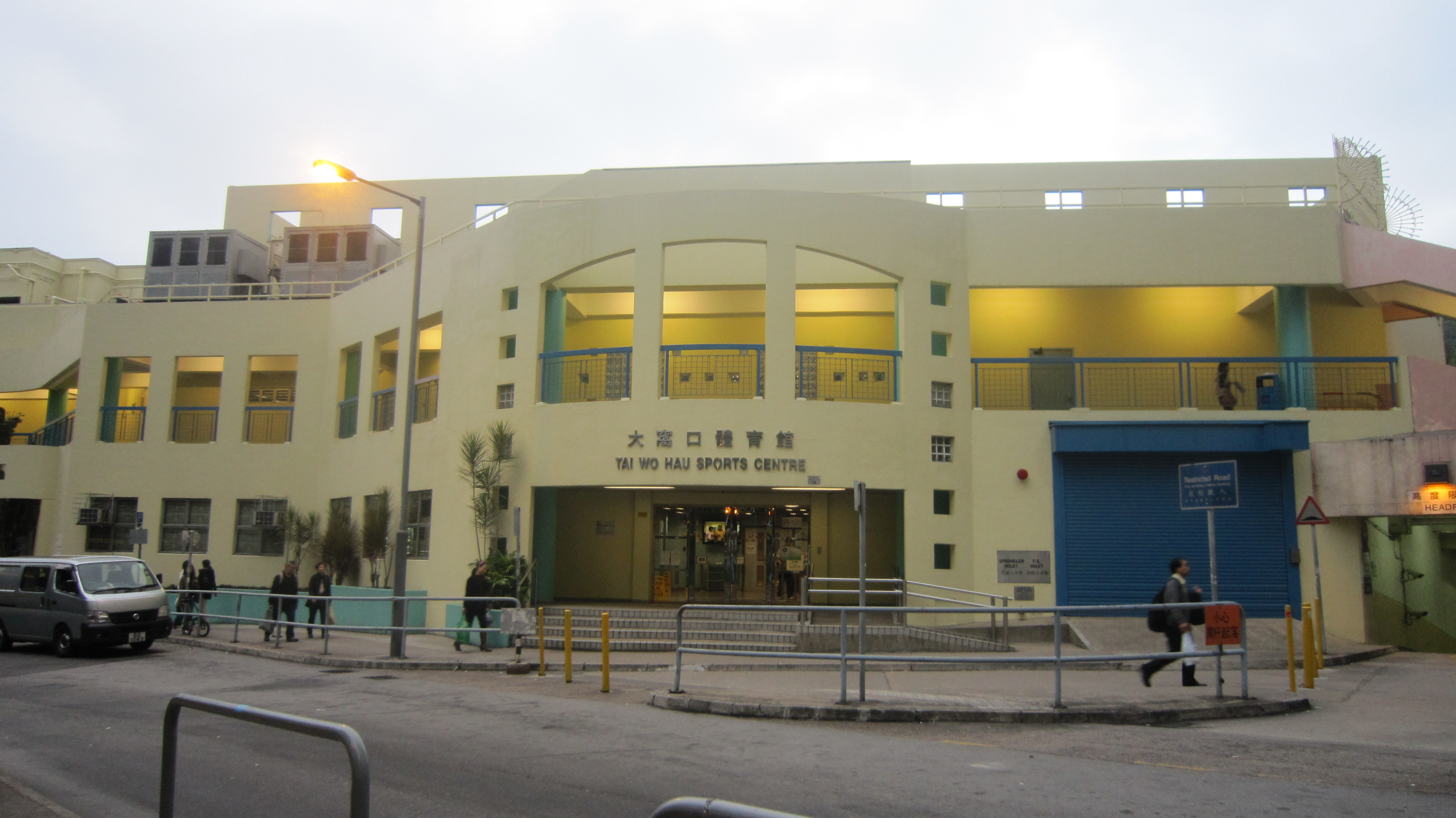 Tai Wo Hau Sports Centre